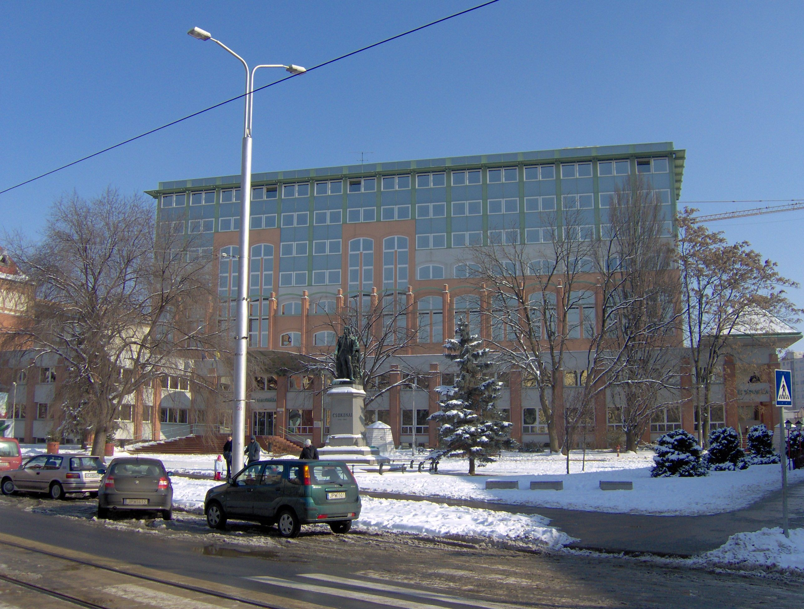 Town Hall of Debrecen